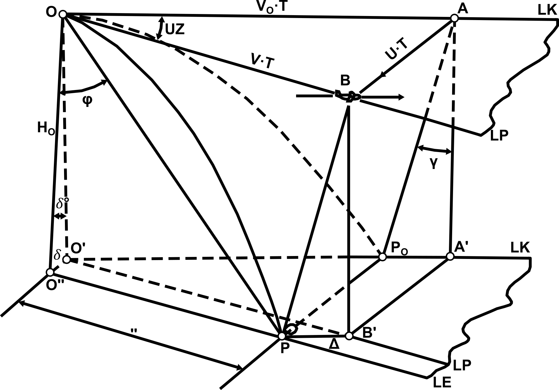 The trajectory of bombs and aiming scheme in bombing from horizontal flight with side wind